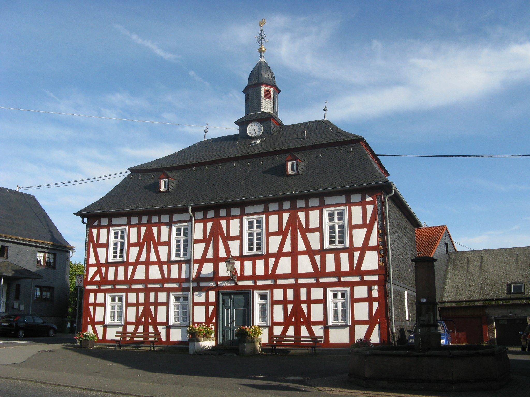 Rehe (Westerwald/Germany) Town Hall